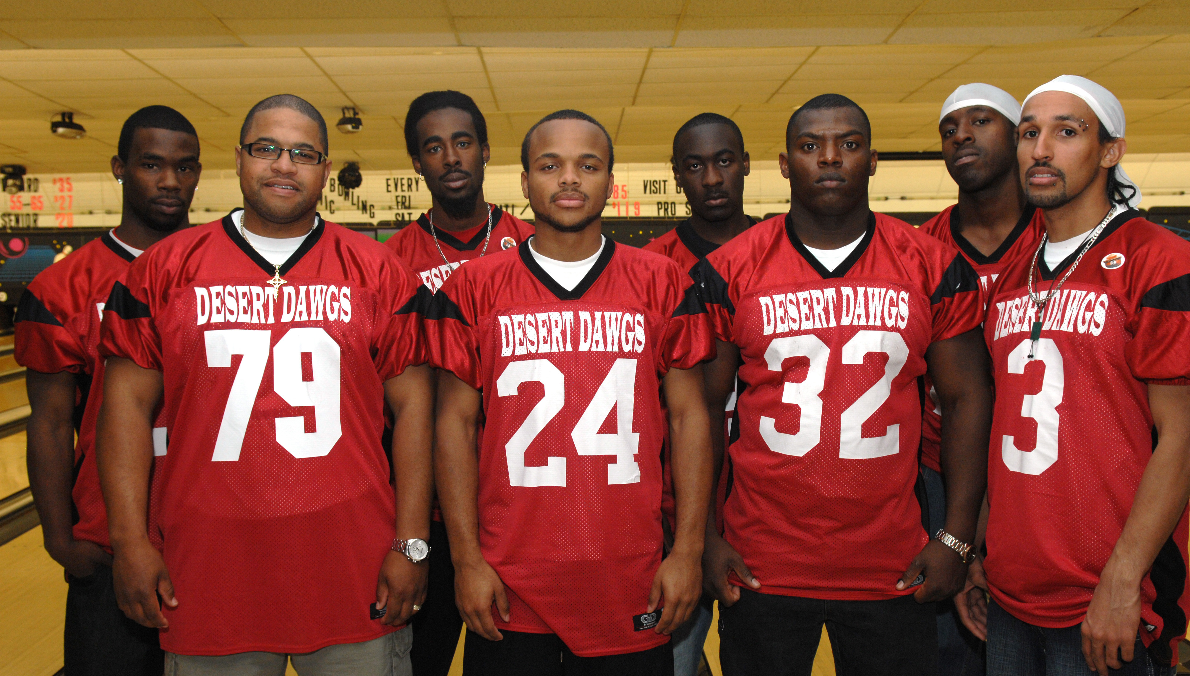 Members of the semi-pro football team Alamogordo Desert Dawgs take a group photo during Bowl For Kid's Sake, presented by Big Brothers Big Sisters of Otero County April 14, 2008 at Holloman Air Force Base, N.M. These football players are members of the Semi-pro football team Alamogordo Desert Dawgs, volunteers for Big Brother's Big Sisters, prior active duty Air Force, Air Force dependents, and an active duty Air Force members. (U.S. Air Force photo/ Senior Airman Anthony Nelson Jr)